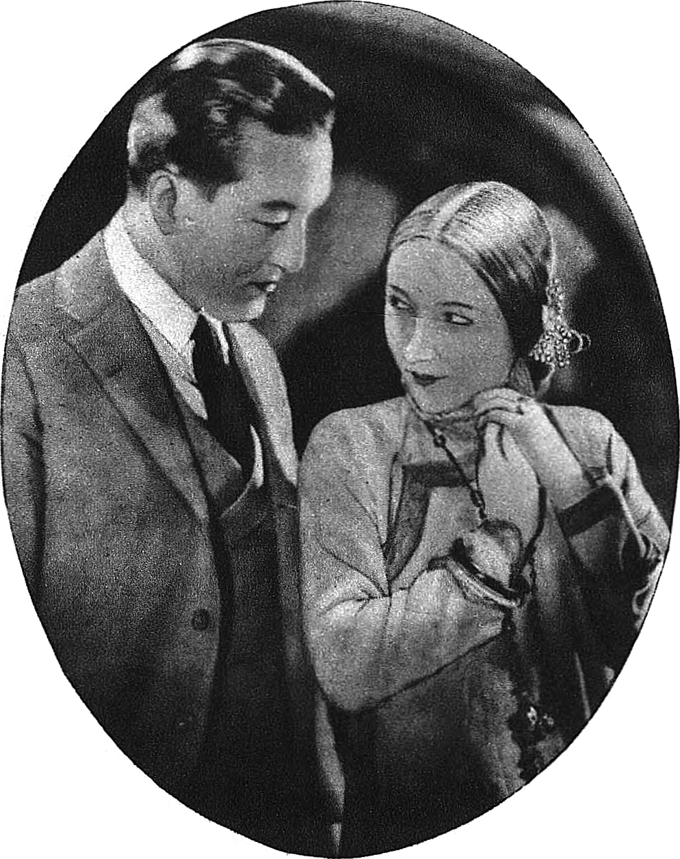 Actors Sessue Hayakawa and Bessie Love in the American drama film The Vermilion Pencil (1922).